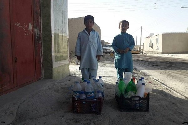 Boys in Sirakan don't access to freshwater.